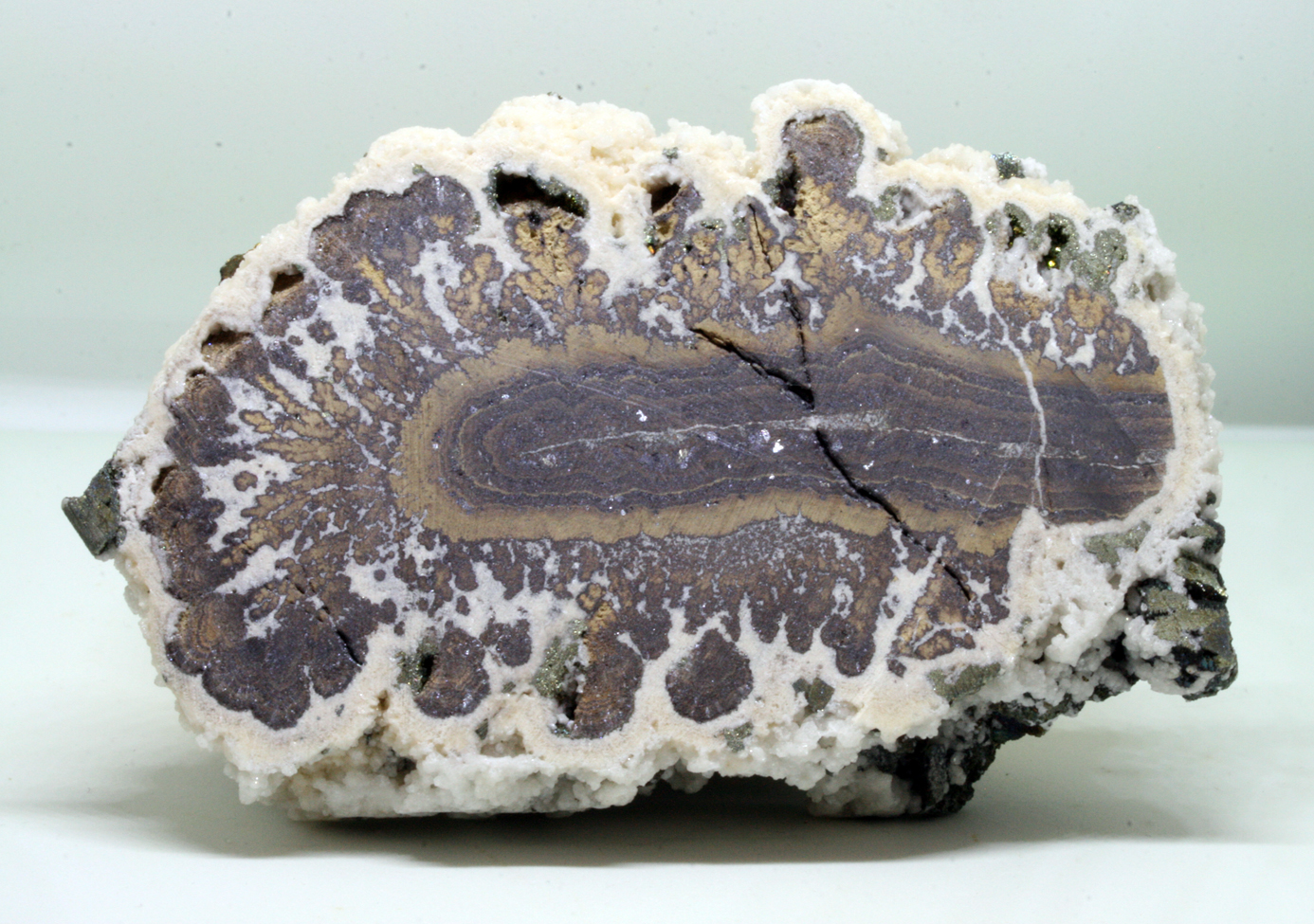 Section of a mineral specimen with sphalerite and dolomite. Reocín mine, Reocín (Cantabria) Spain